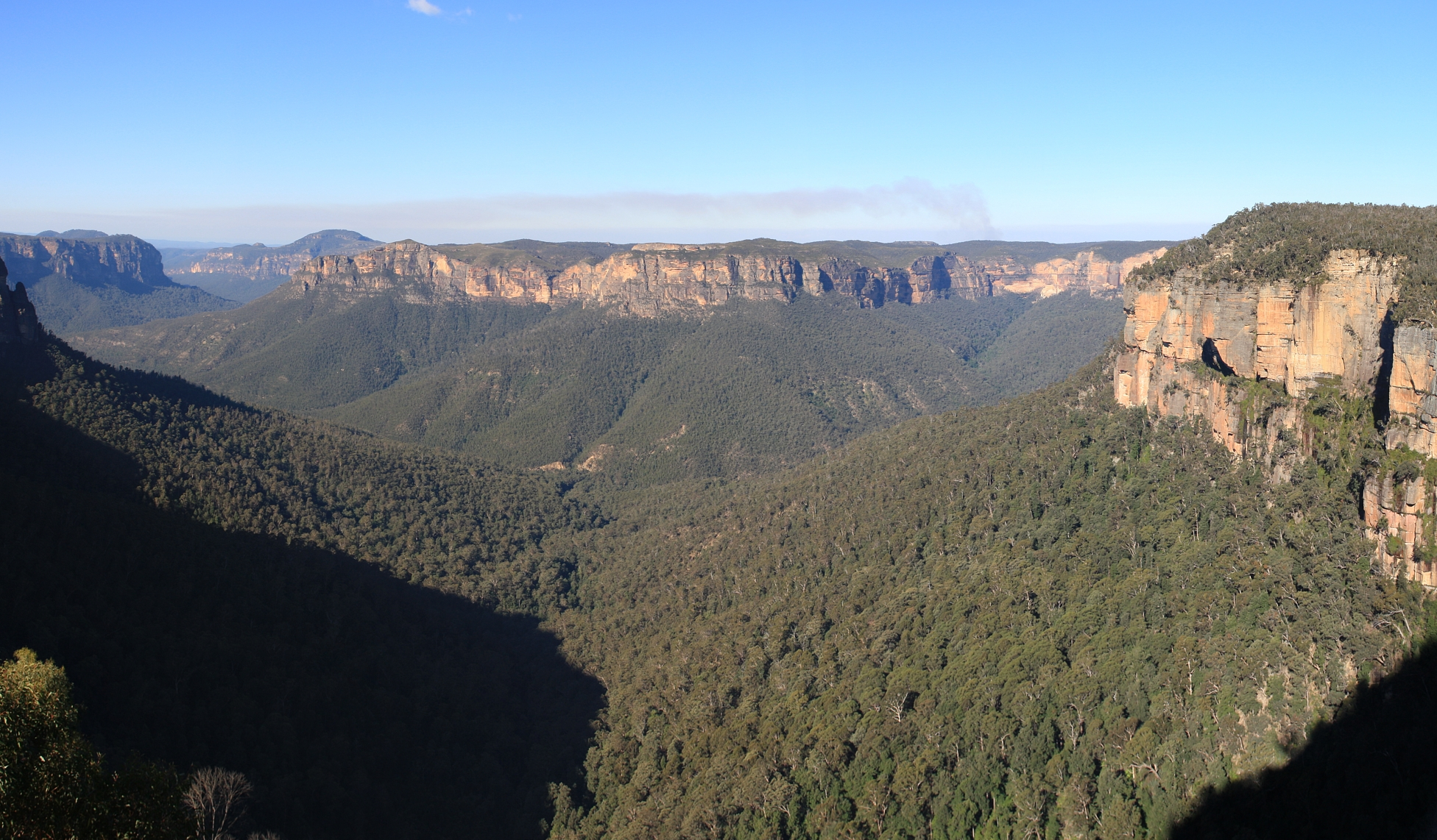 Grose Valley, New South Wales as seen from govetts leap Blackheath, New South Wales area.